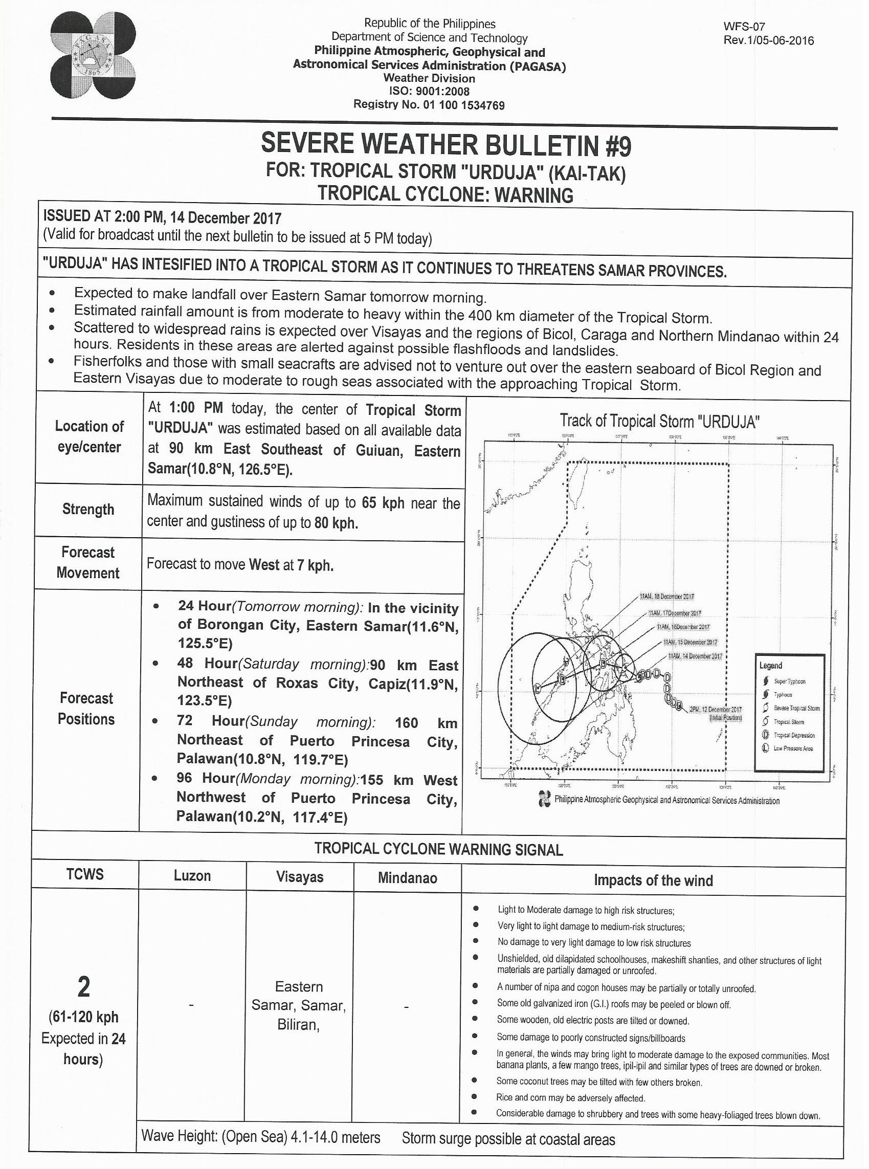 Image of the first page of Severe Weather Bulletin #9 (Tropical Storm Urduja), issued by Philippine weather bureau PAGASA on Dec. 14, 2017 at 2 PM